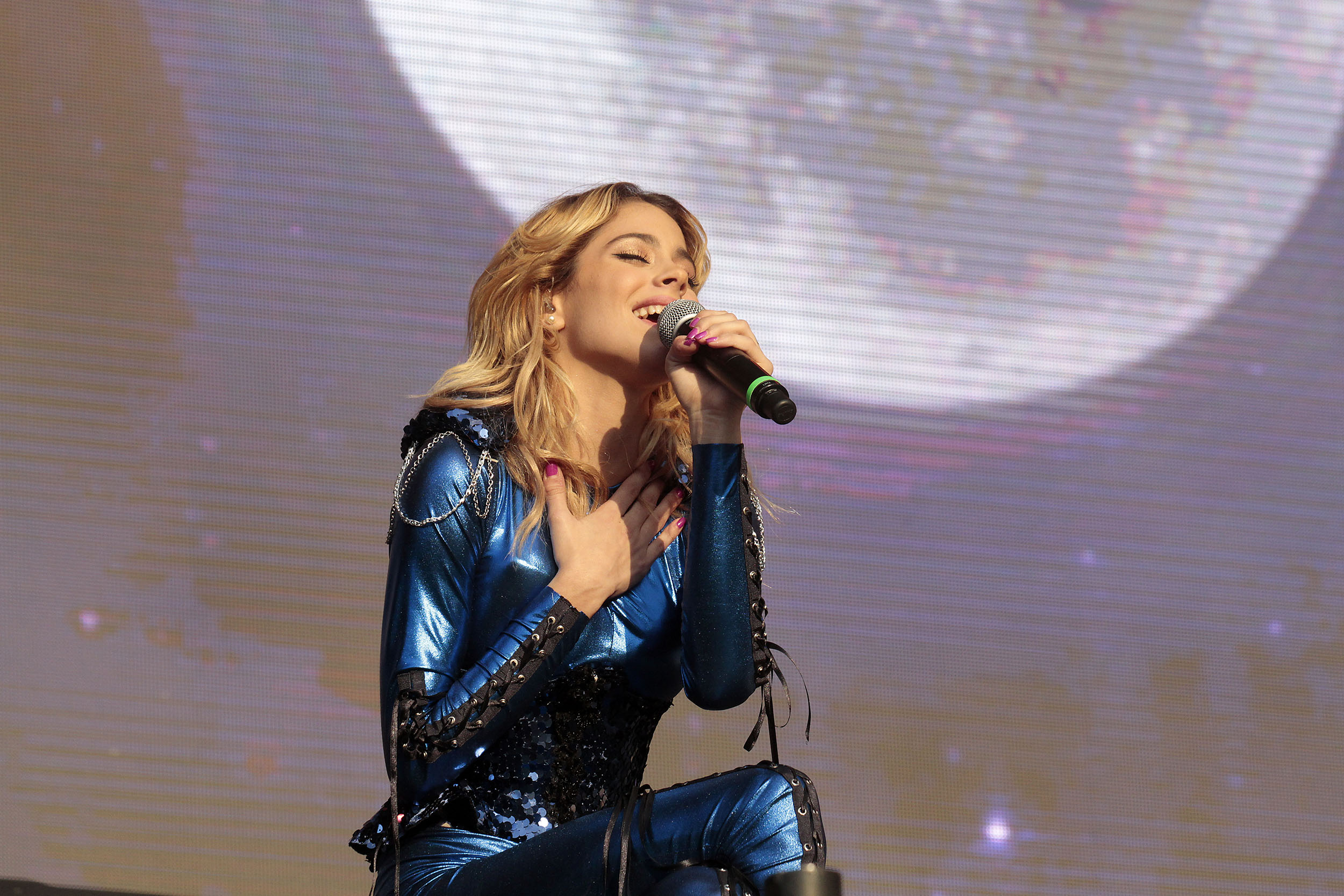 Martina Stoessel performing on May 2, 2014 during the free concert "Juntada Tinista" in Buenos Aires.